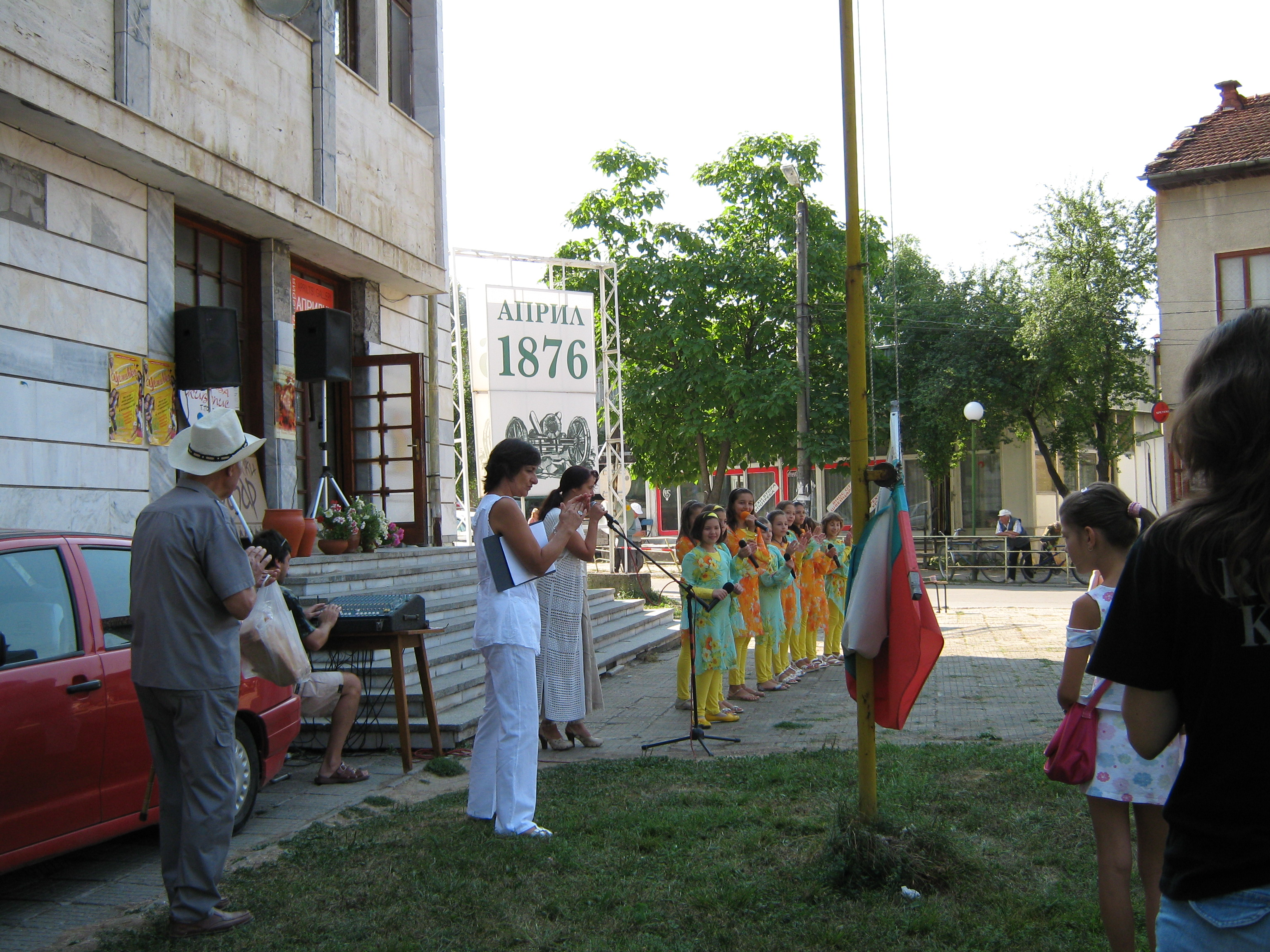 Celebration in Apriltsi, Bulgaria